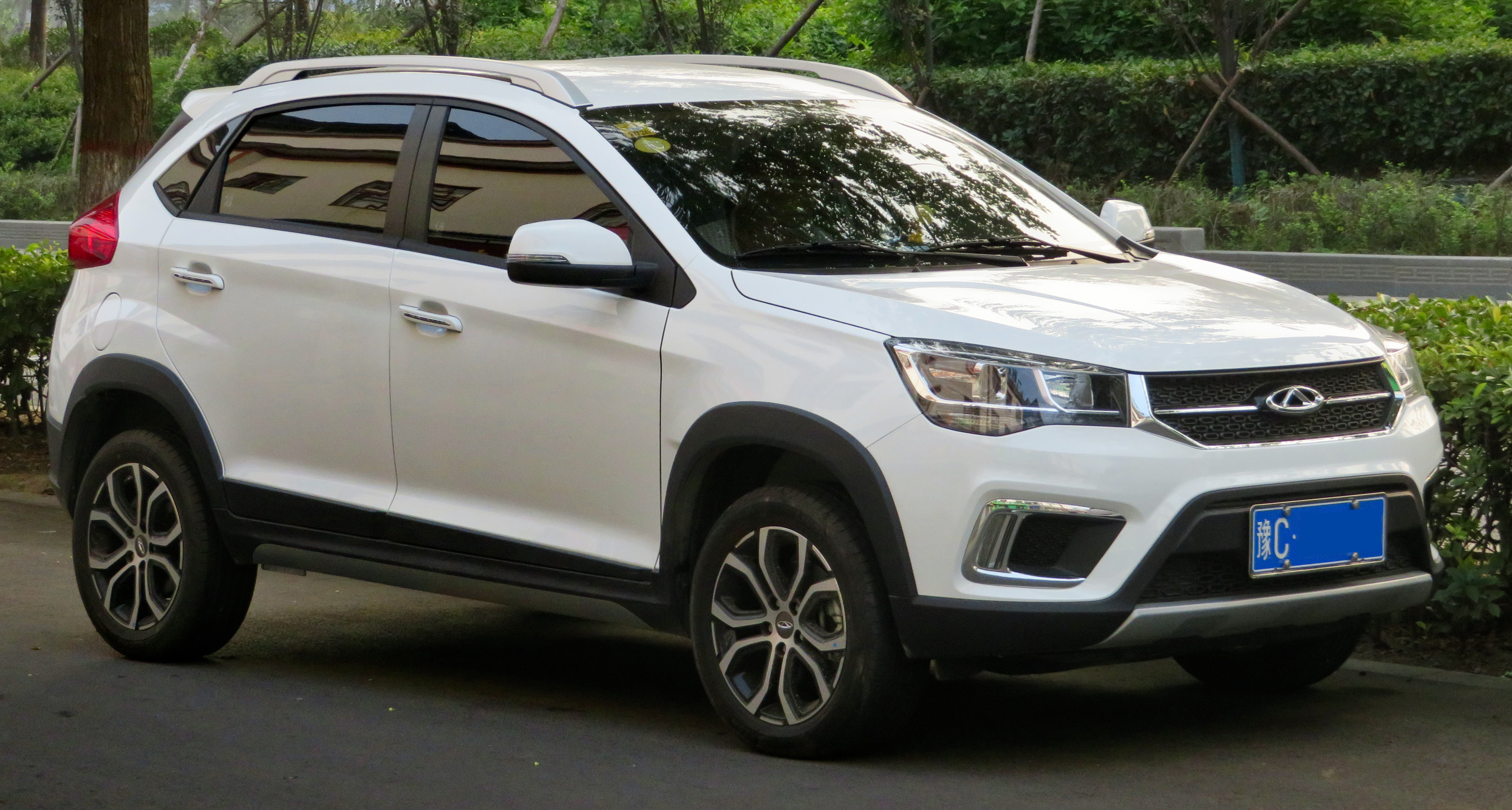 A 2018 Chery Tiggo 3x photographed at Guanlinzhen, in Luoyang, Henan province, China